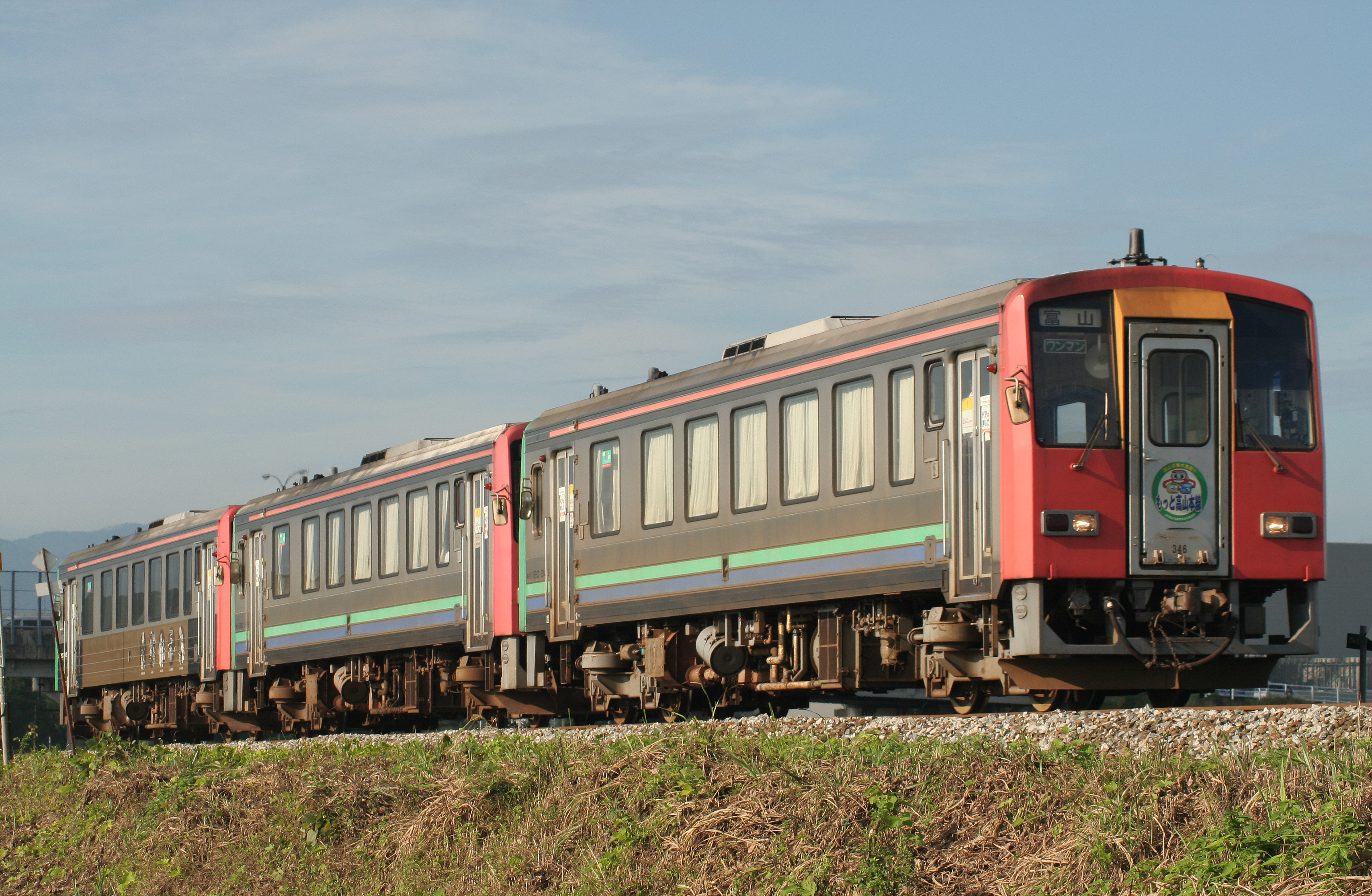 3-car formation of JR West KiHa 120 DMU cars (KiHa 120-346/349/345) on the Takayama Main Line between Nishi-Toyama and Fuchū-Usaka Station